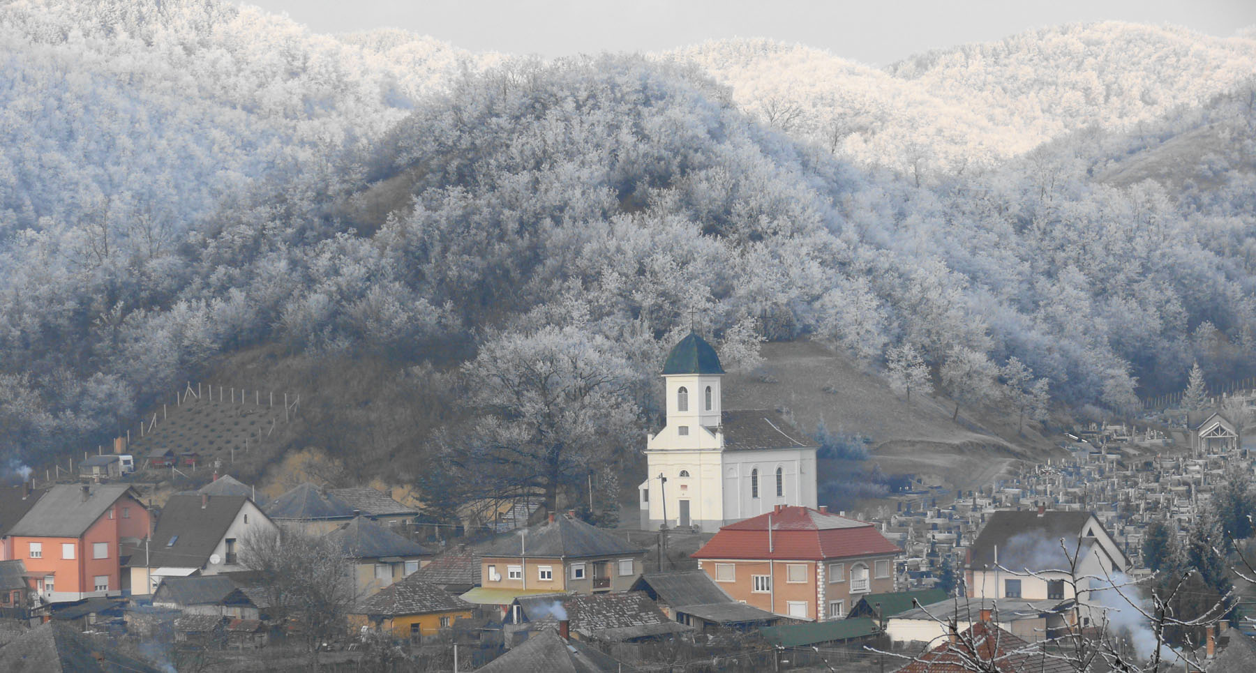 Istenmezeje Hungary